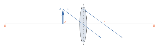 Object: Description: Author: Panther, uploaded here by Maksim Created: 12 Feb 2005 Source: Drawn by Panther using Corel Draw!